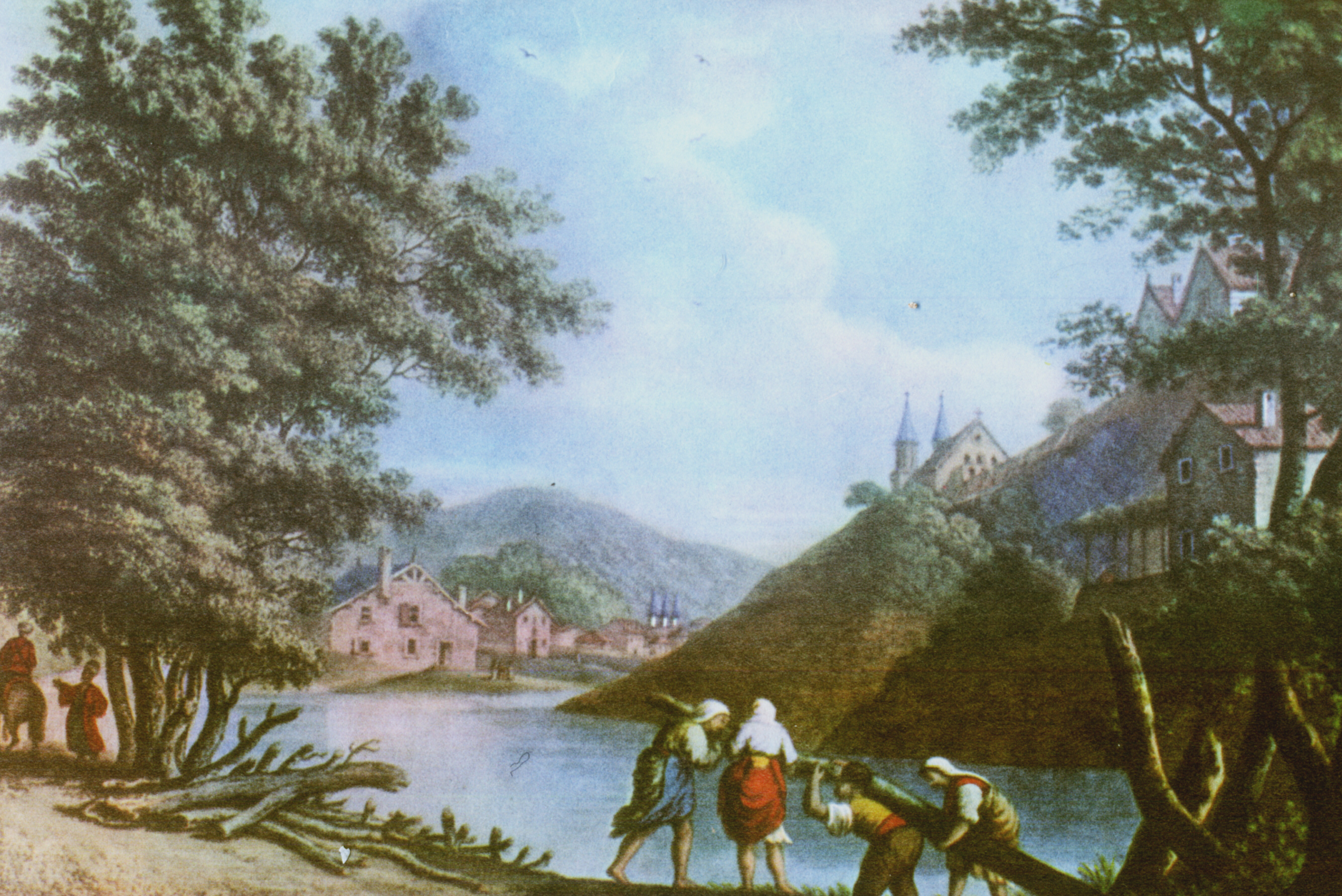 View over the Wallachian town of Piteşti